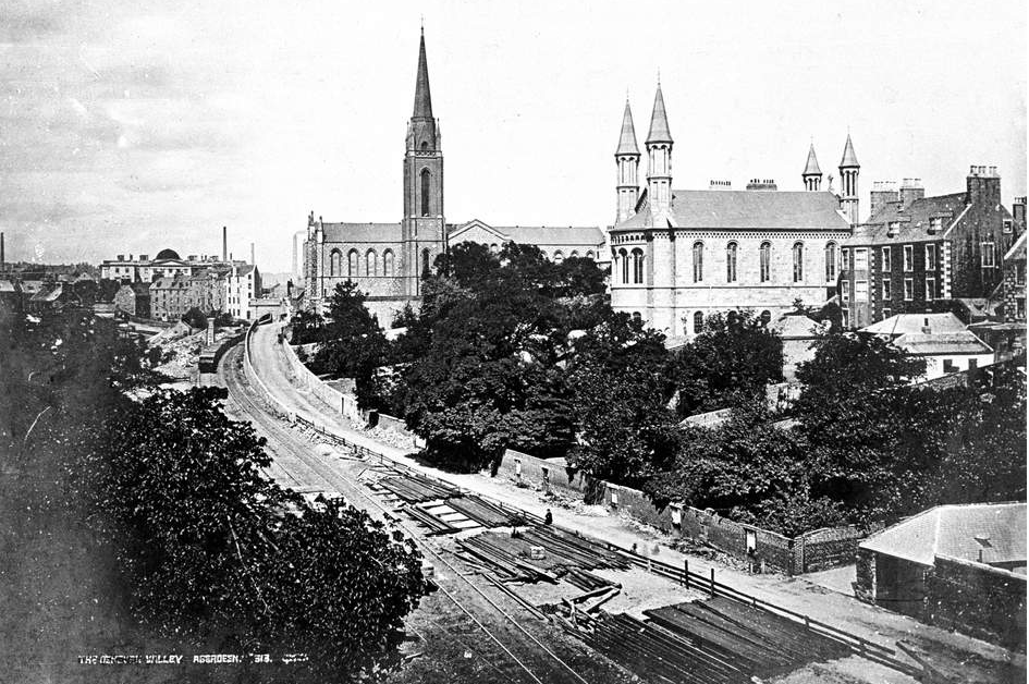 Postcard issued in 1850